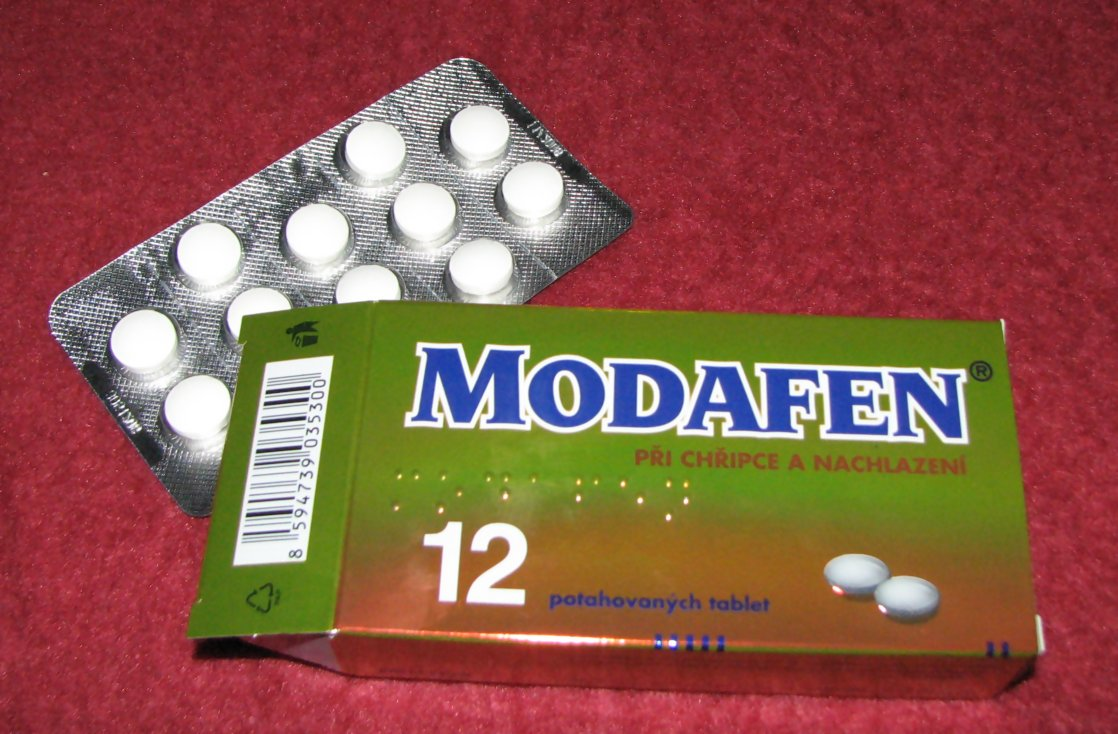 Box of Modafen